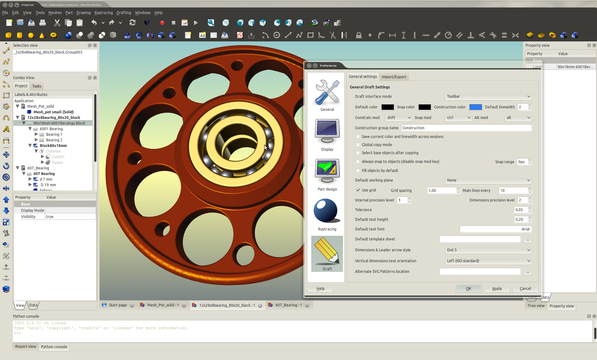 FreeCAD screenshot version r4379 (0.012) in Ubuntu 10.10 3D model created by Casper Nilsson